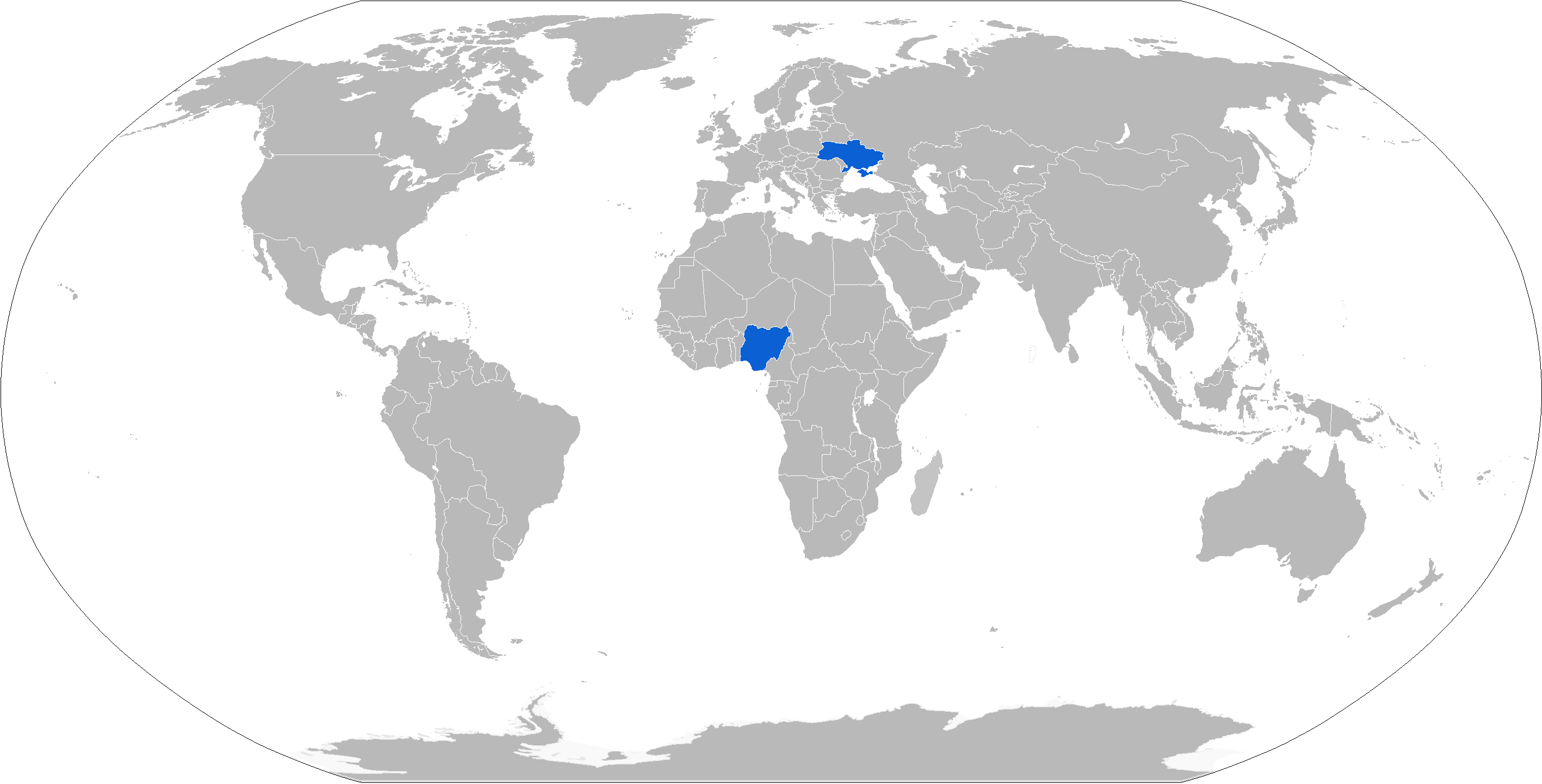 Map with Spartan operators in blue